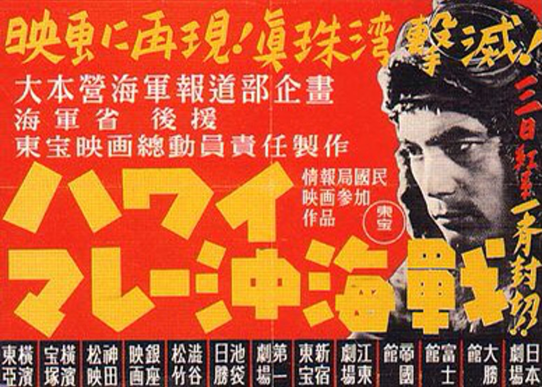 Movie poster for 1942 Japanese movie (ハワイ・マレー沖海戦 Hawai Mare oki kaisen), literally: The War at Sea from Hawaii to Malay.